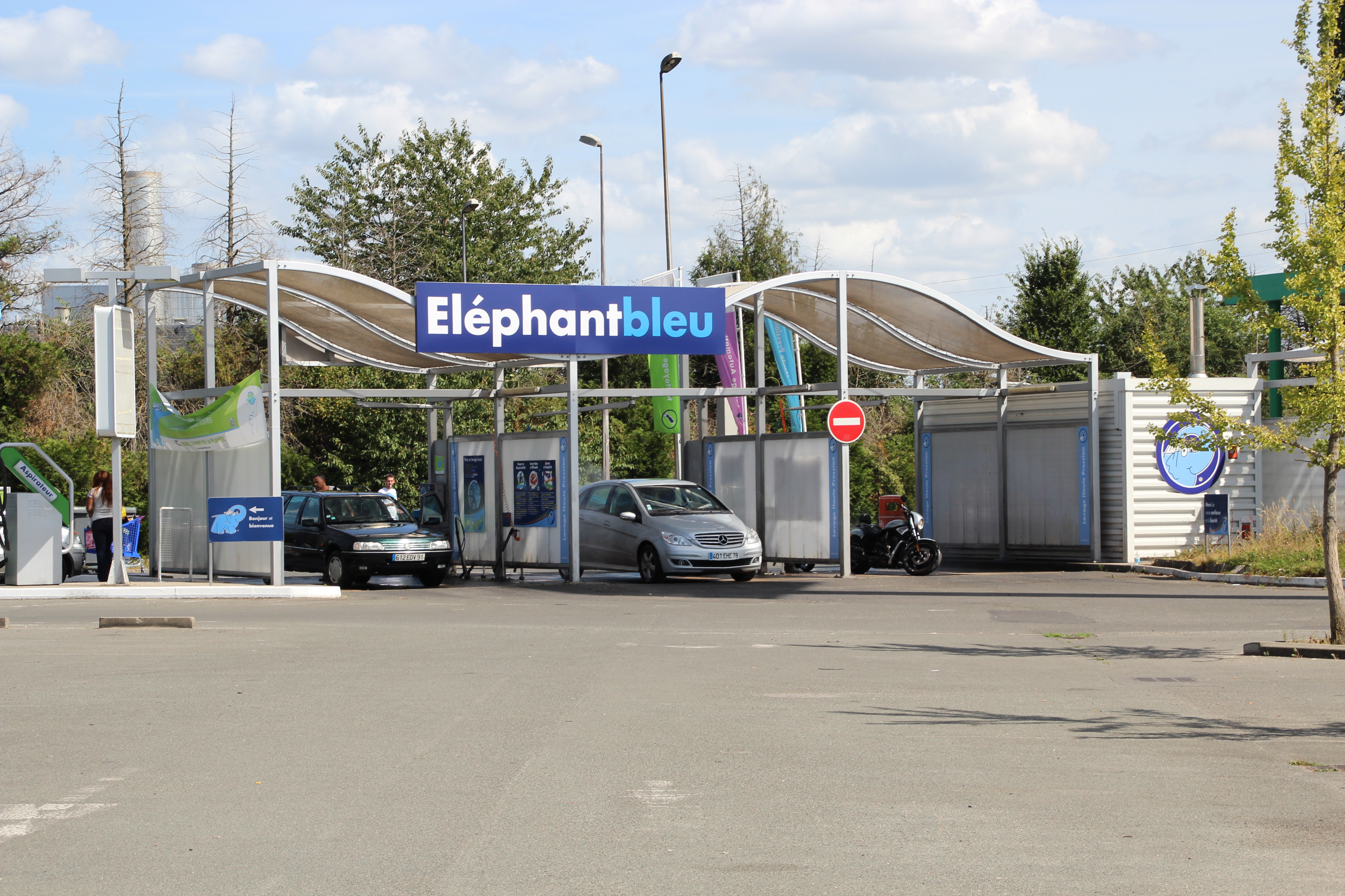 Elephant bleu cleaning station on the city of Les Ulis, France.